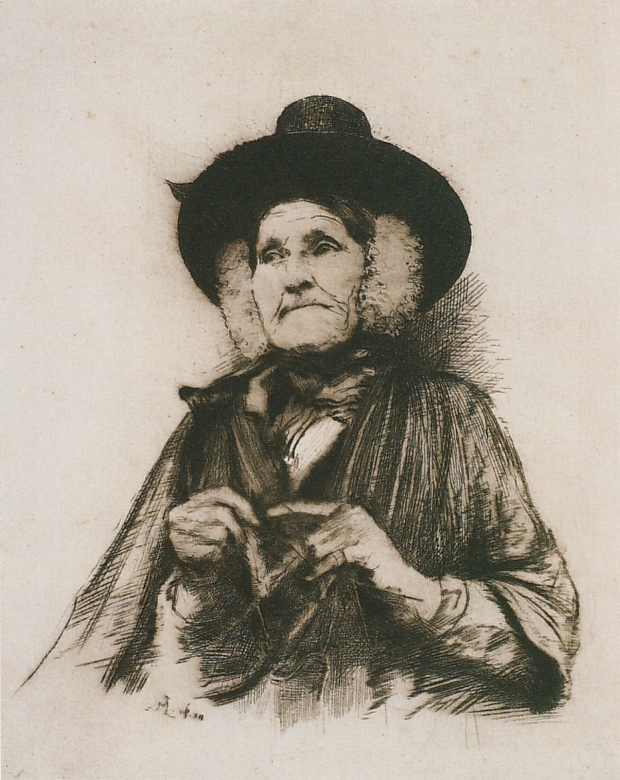 The Welsh Hat